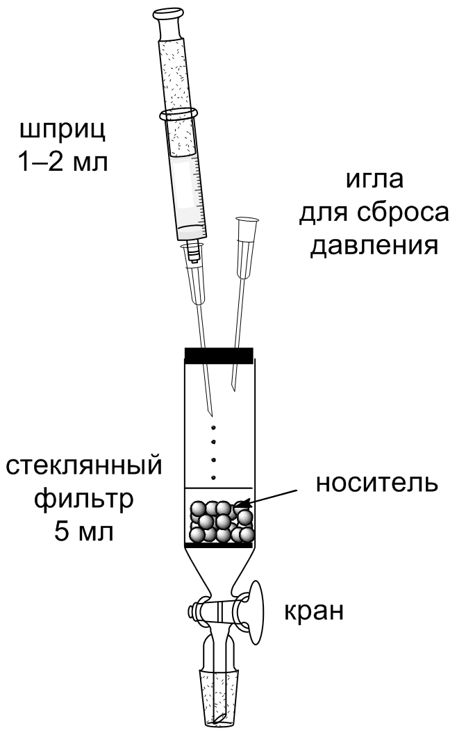 Manual Olgonucleotide Synthesis As in